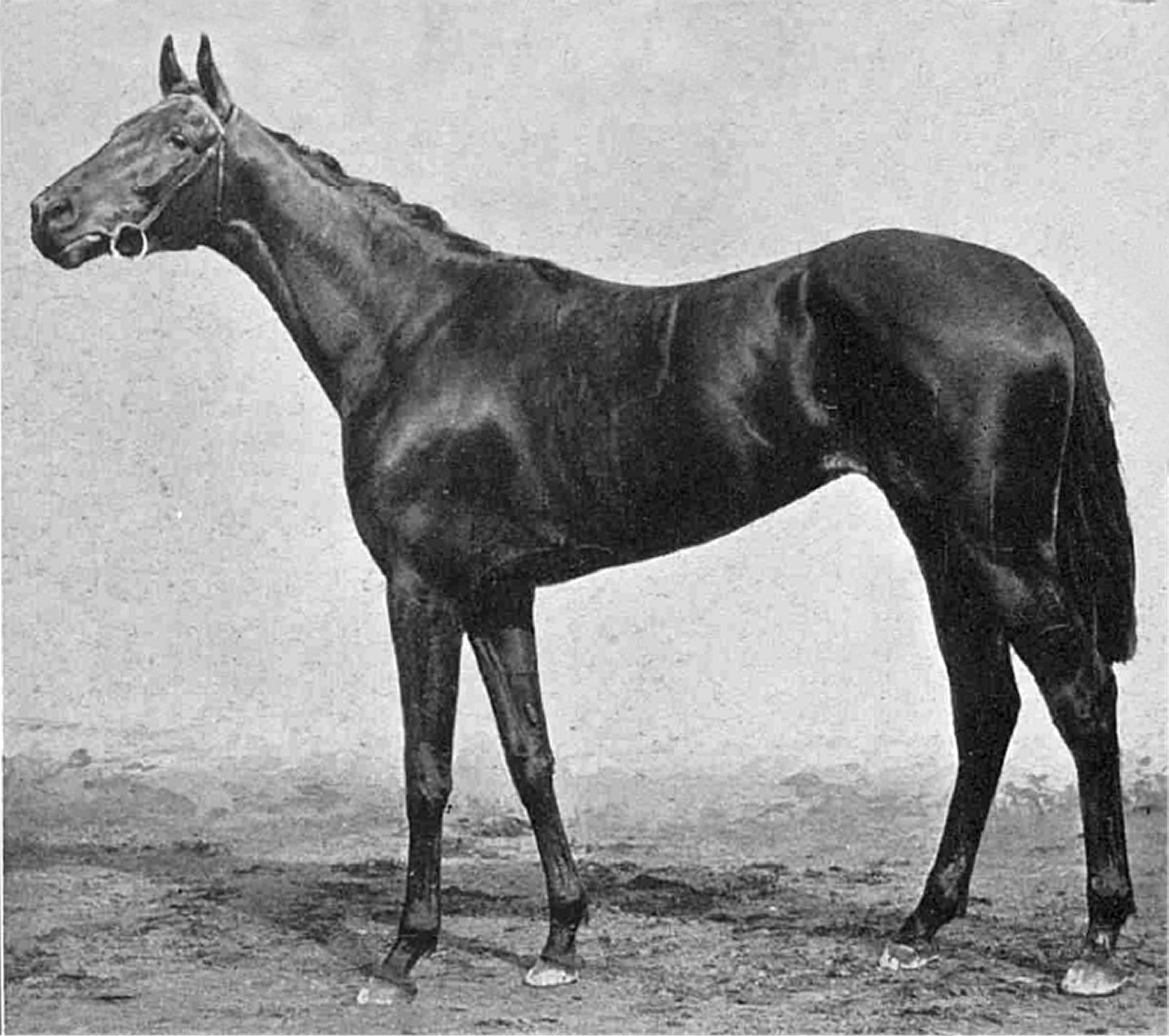 Witch Elm, winner of the 1907 1000 Guineas.